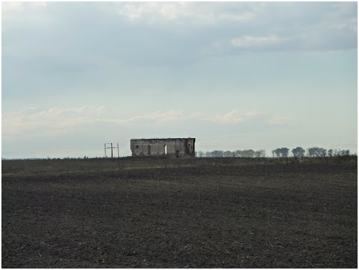 Author - Iulian Măcreanu Description - A photo realized by me with digital camera, representing the ruins of the former Orthodox Church from the former village Filiu, belonging to the Brăila County, Romania. Restrictions - the file can be used without any restrictions Notice - the photo was taken in 2011